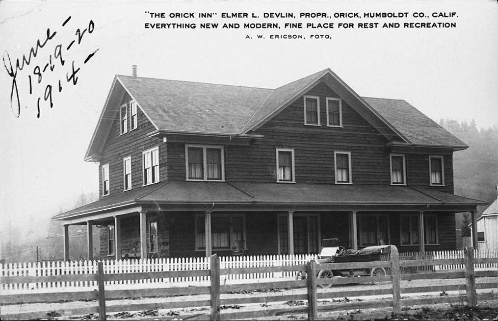 Ericson, “"The Orick Inn" Elmer L. Devlin, Propr., Orick, Humboldt Co., Calif., Everything New and Modern. Fine Place for Rest and Recreation. ,” by A.W. Ericson. This is the original building which burned down in 1918.